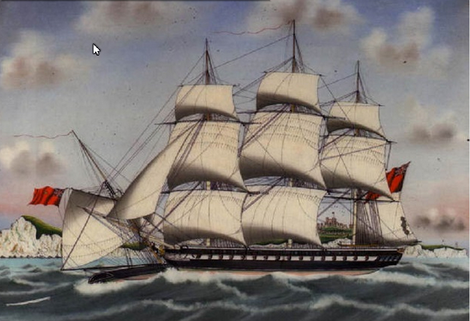 "H.M.S. "Castor" running down the "Chameleon" cutter off Dover", (1834) reverse glass painting by Petrus Nefors (1790-1876)